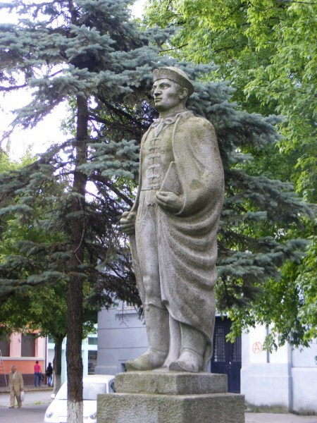 Sculpture of Sándor Csoma Kőrösi (Tîrgu-Mureş, Romania)